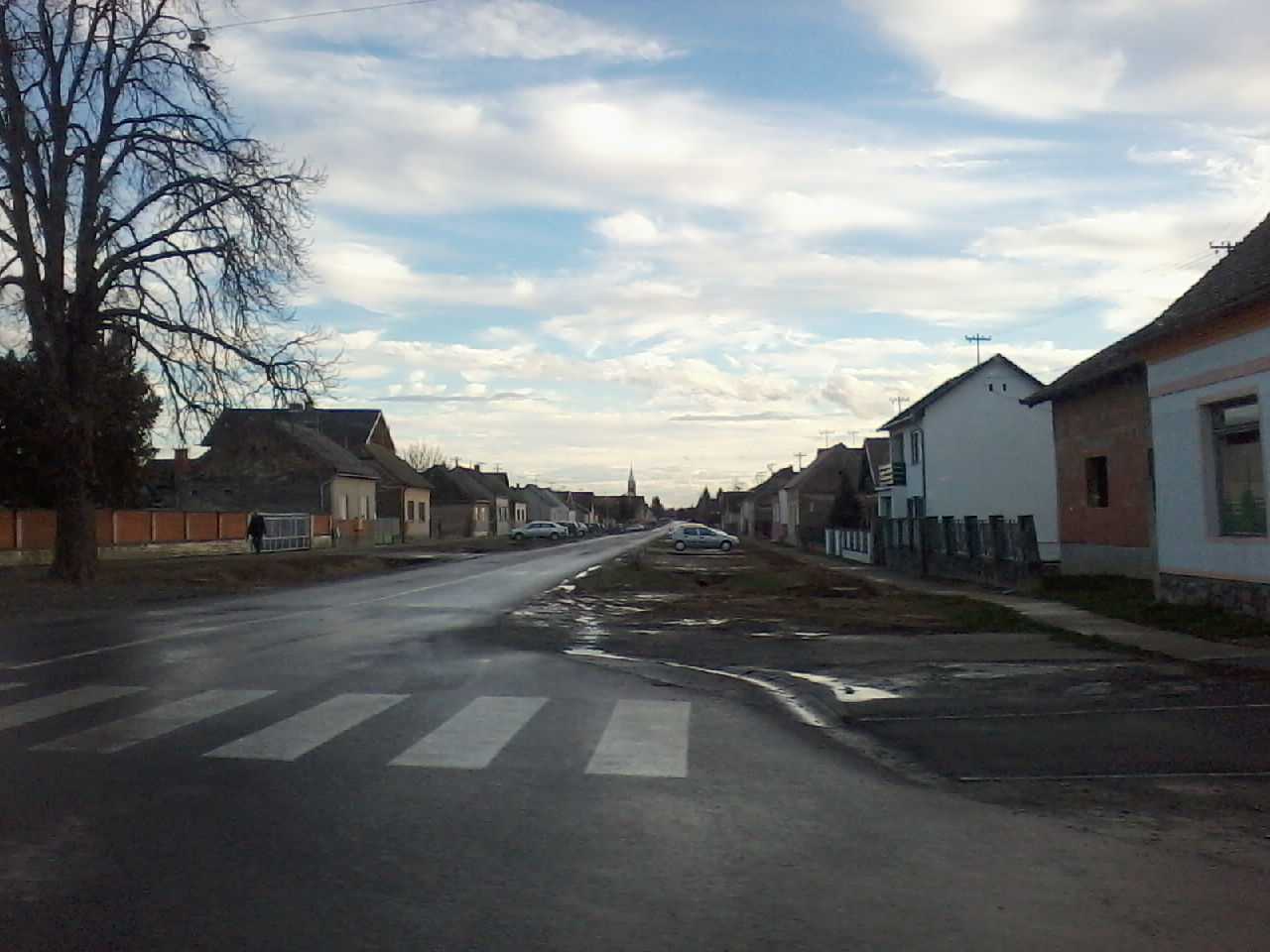 Center of Veliškovci.